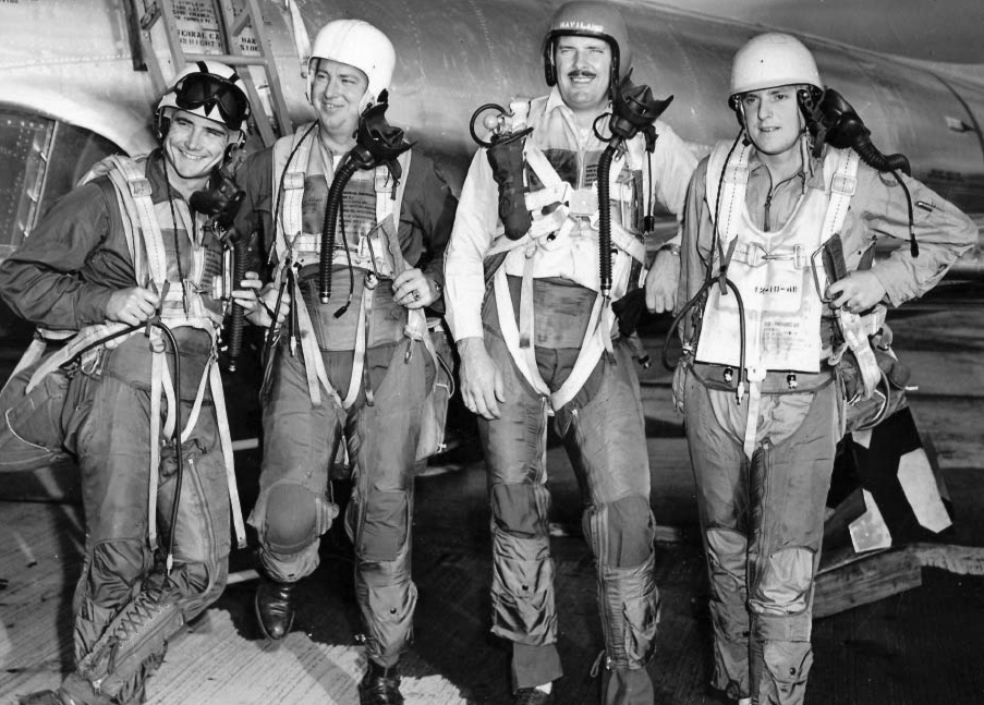 The original U.S. Air Force pilots of the Florida Air National Guard Florda Rockets demonstration team in front of one of their Lockheed F-80B Shooting Star fighters, circa 1948 (l-r): Bill Yoakley (left wing), Harry Howell (right wing), Bill Haviland (lead), and Jack Nunnally (slot).